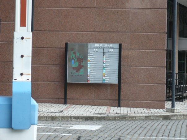 GBH Hospital